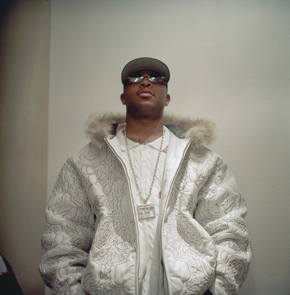 rapper royce da 59 in Cologne/Germany 2002